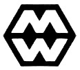 Recreation of the logo of the New Zealand Ministry of Works used in the 1970s-90s